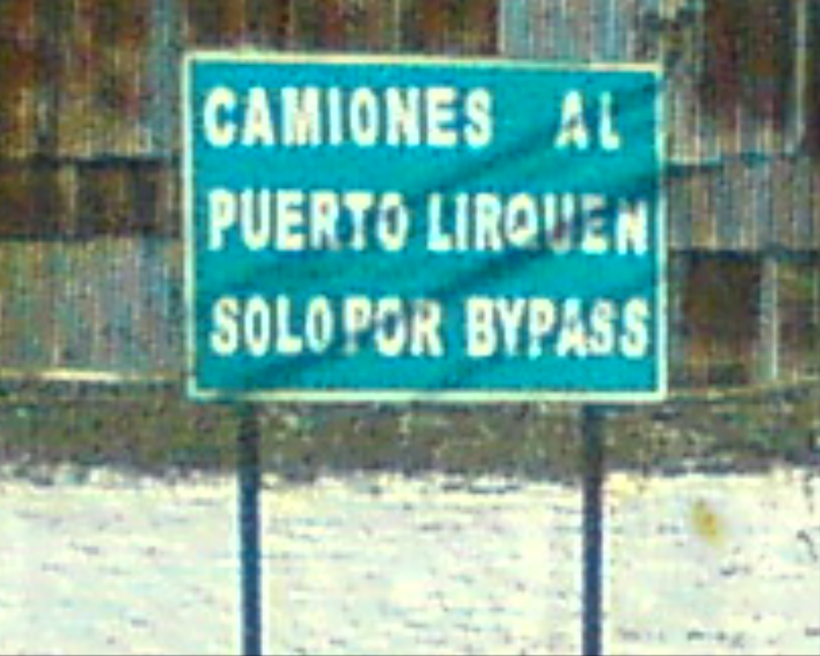 bypass